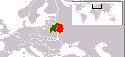 West Belarus (administered by the 2nd Polish Republic) in Green, East Belarus (administered by the USSR) in Red. Belarus region shown outlined by yellow.